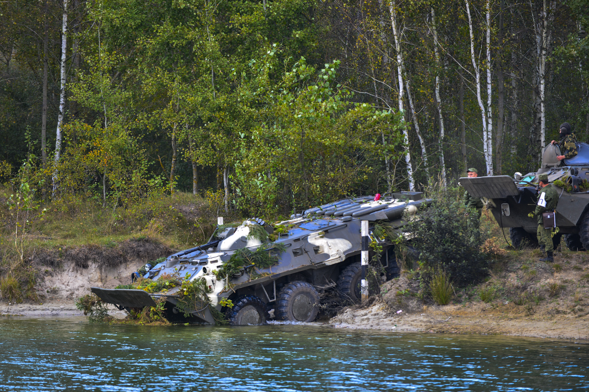 Belarusian 38th Separate Guards Air Assault Brigade.